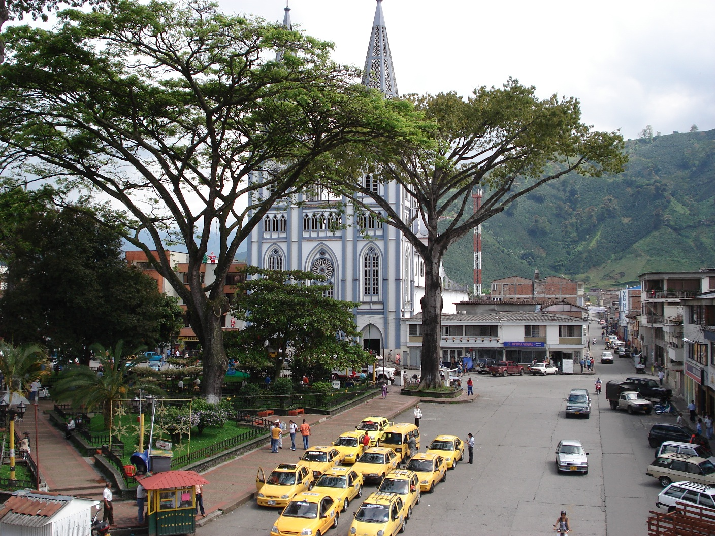 Photograph by Ryan Domingue. I took this picture from my in-laws' apartment balcony in Chinchiná.